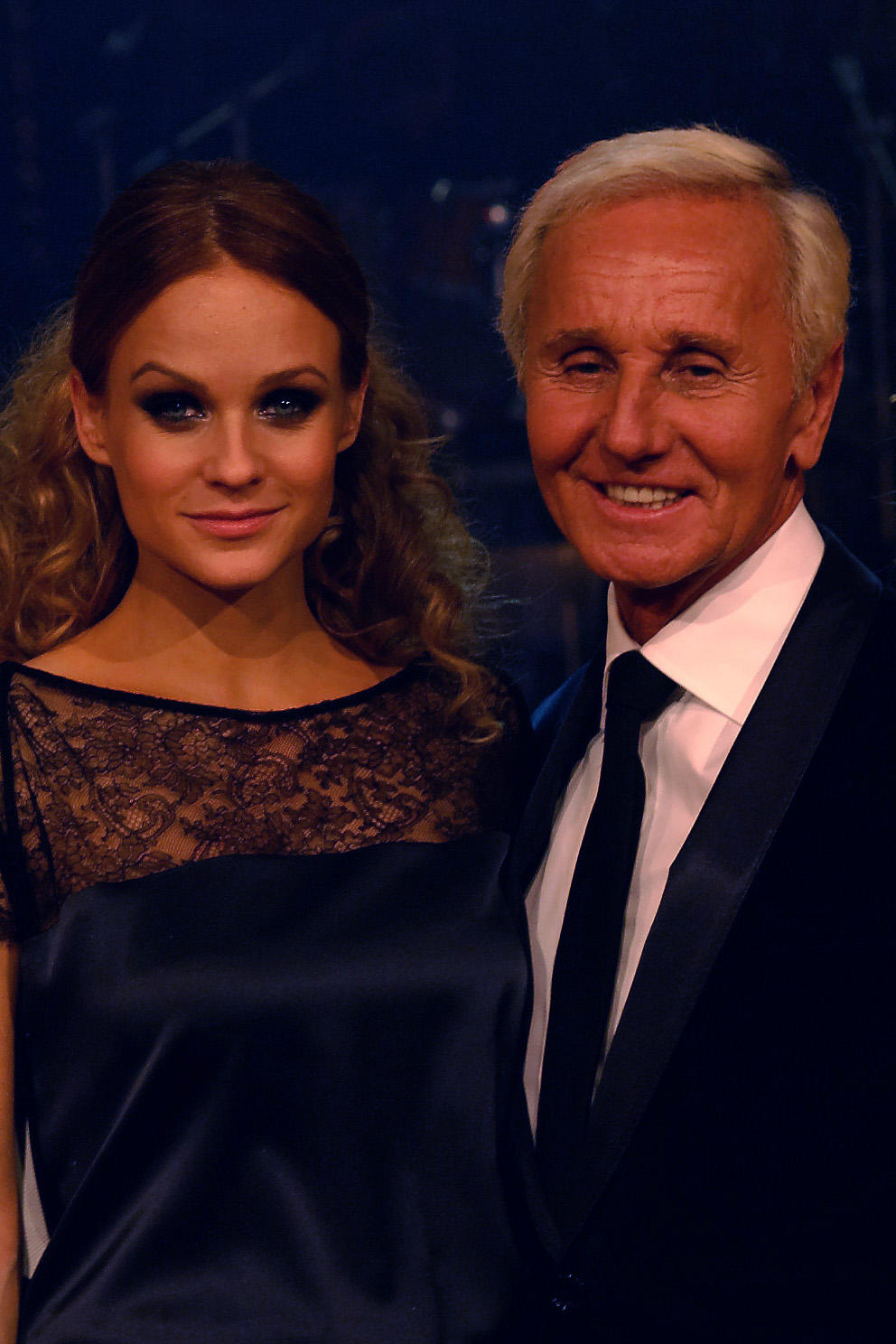 "Dancing Stars" am 5. April 2013 The making of this document was supported by Wikimedia Austria. Mirjam Weichselbraun, Klaus Eberhartinger